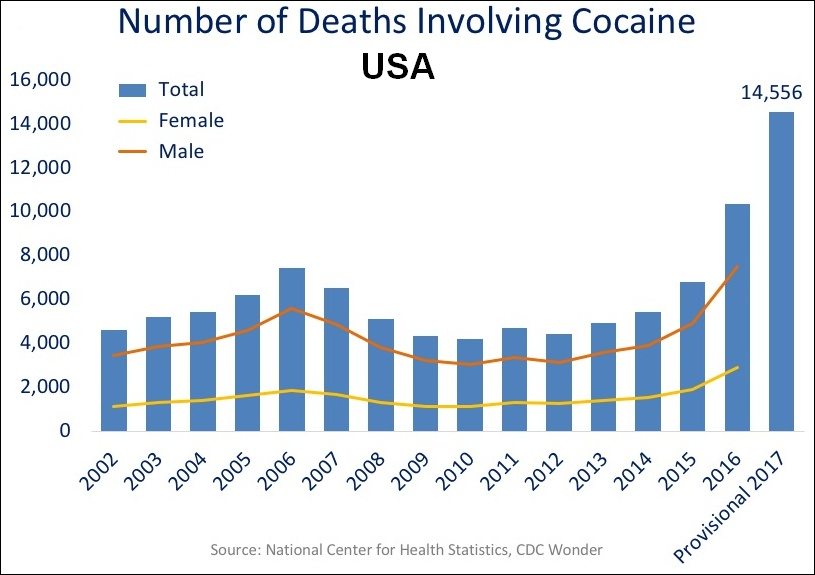 "​National Overdose Deaths—Number of Deaths Involving Cocaine. The figure above is a bar chart showing the total number of U.S. overdose deaths involving cocaine from 2002 to 2016 and provisional 2017 data. The chart is overlayed by a line graph showing the number of deaths of females and males from 2002 to 2016. From the lowest number in 2010 to 2017, there has been a 3.5-fold increase in the total number of deaths."